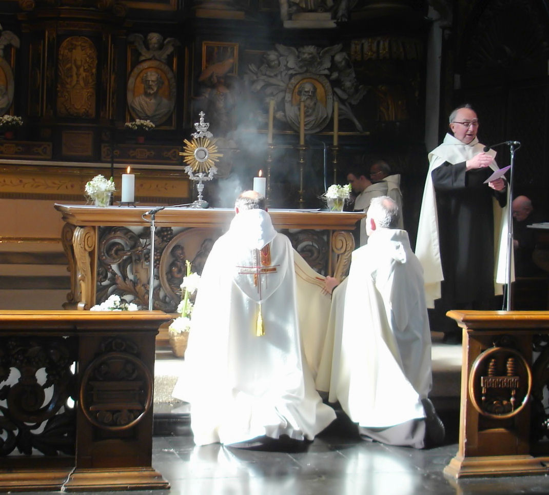 own picture taken by Carolus 18:32, 22 April 2007 (UTC)